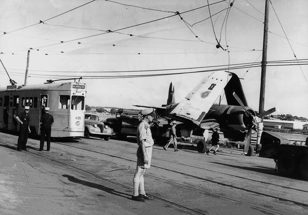 Accident occurred near the Breakfast Creek Bridge when a Vought Corsair Fighter with wings folded for transport, got the wings caught in overhead power lines. The plane was being towed after being unloaded from a British aircraft carrier at Bretts Wharves. The truck and aircraft had to be turned around to allow movement of traffic along Kingsford Smith Drive. The tram was travelling from Ascot towards Balmoral Cemetery. (Description supplied with photograph)